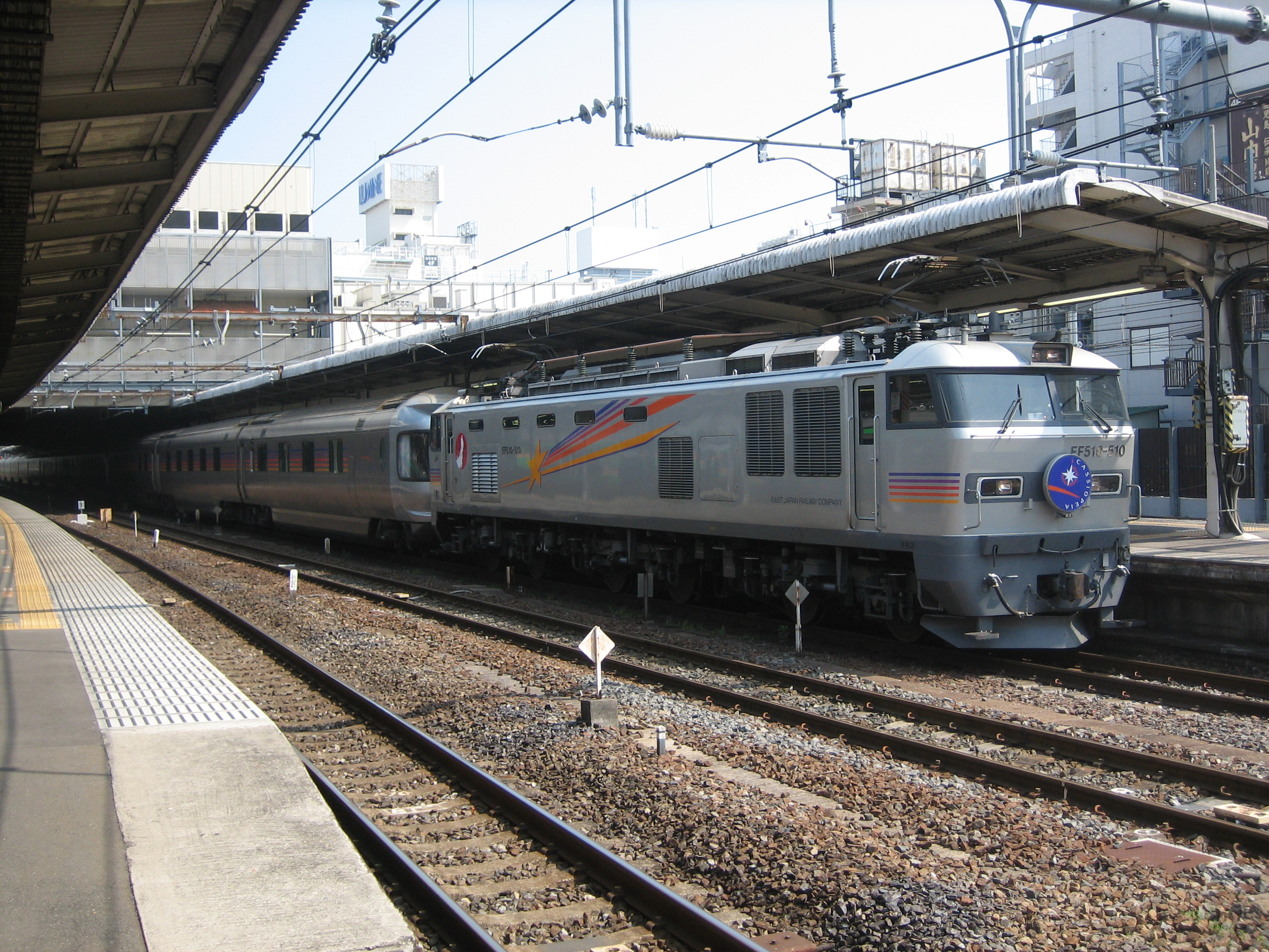 Ōmiya Station